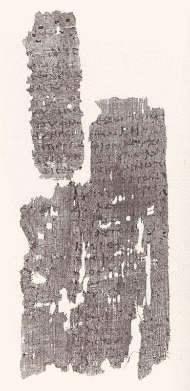 page with text of Apocalypse 1:13-2:1